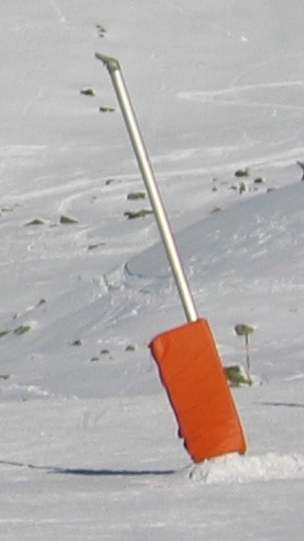 Snow cannon with protection.